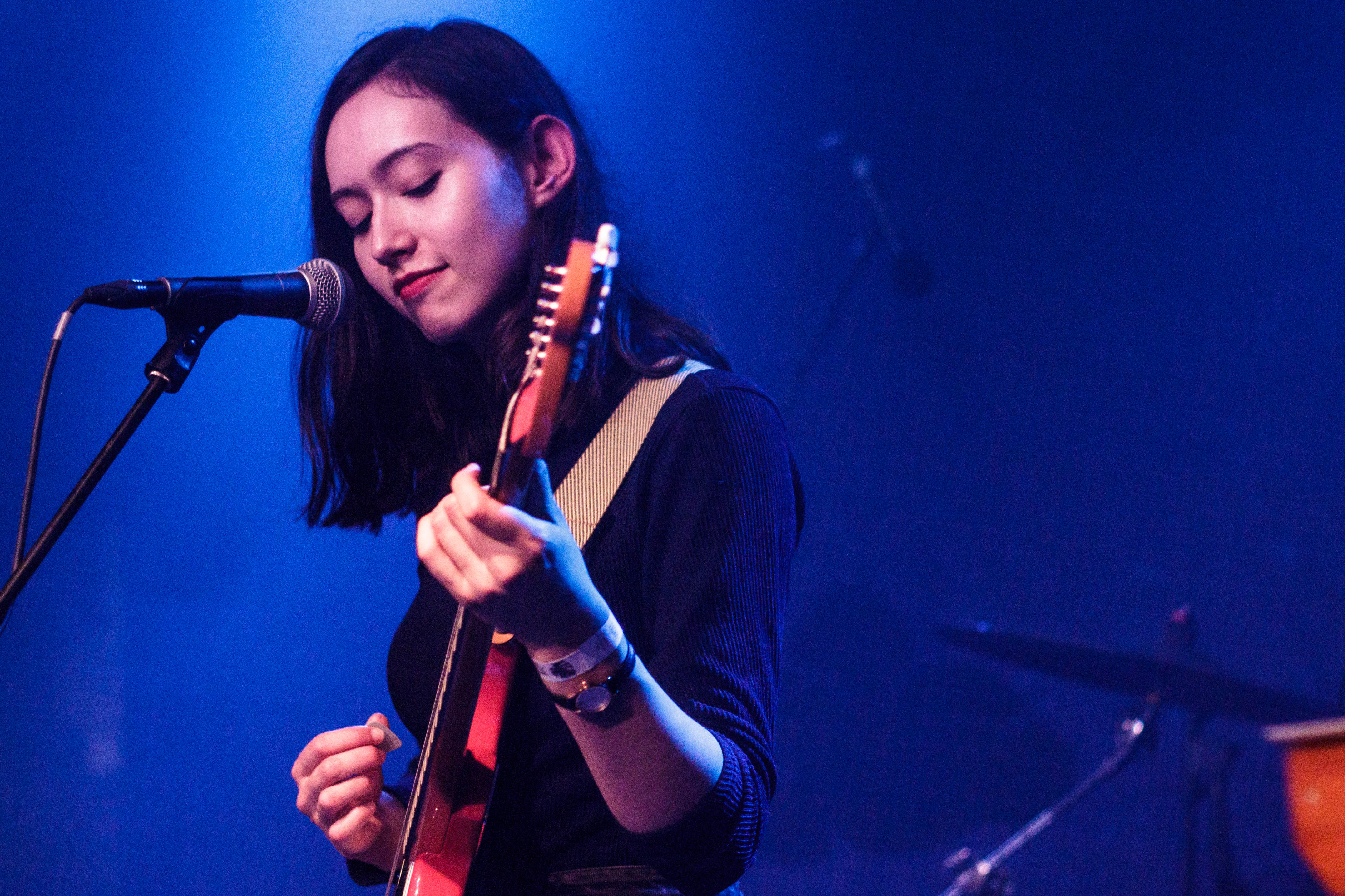 Fazerdaze at Way Back When Festival 2017